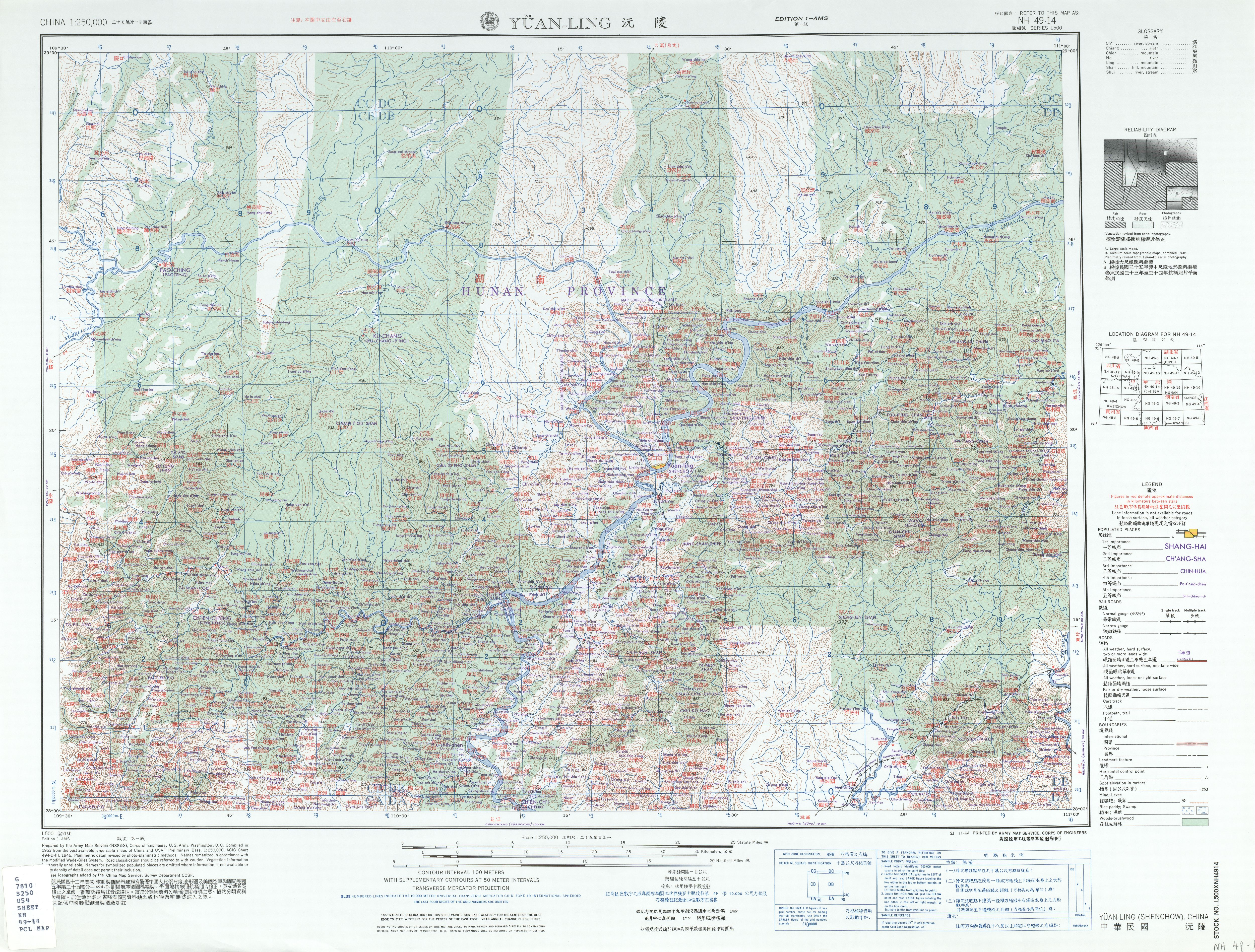 China AMS Topographic Maps